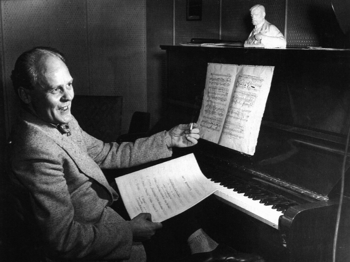 Photograph of the Finnish composer Jouko P. K. Tolonen (1912–1986).